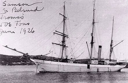 The Samson